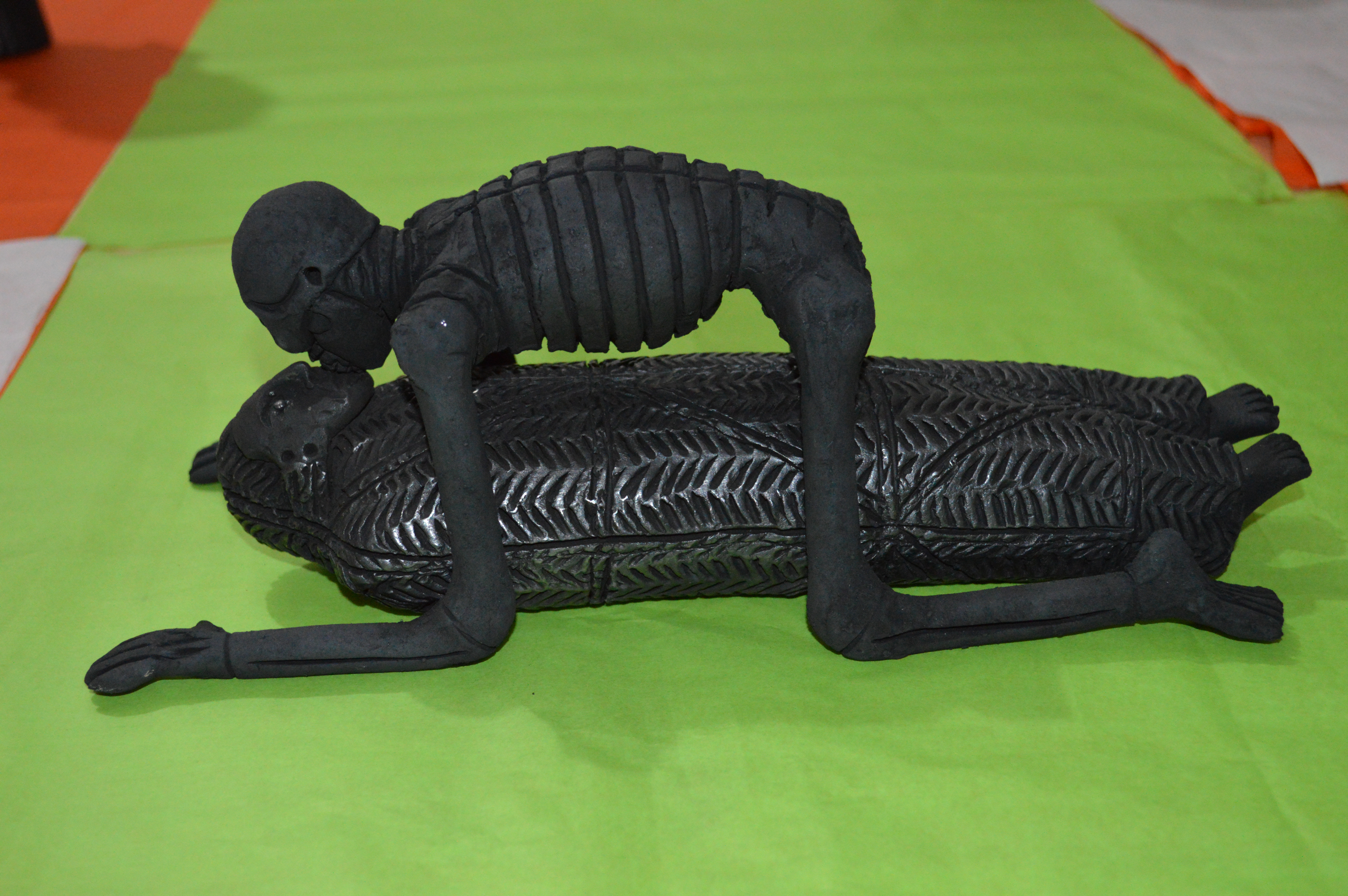 Pieces by Carlomagno Pedro Martinez at his workshop in San Bartolo Coyotepec, Oaxaca, Mexico